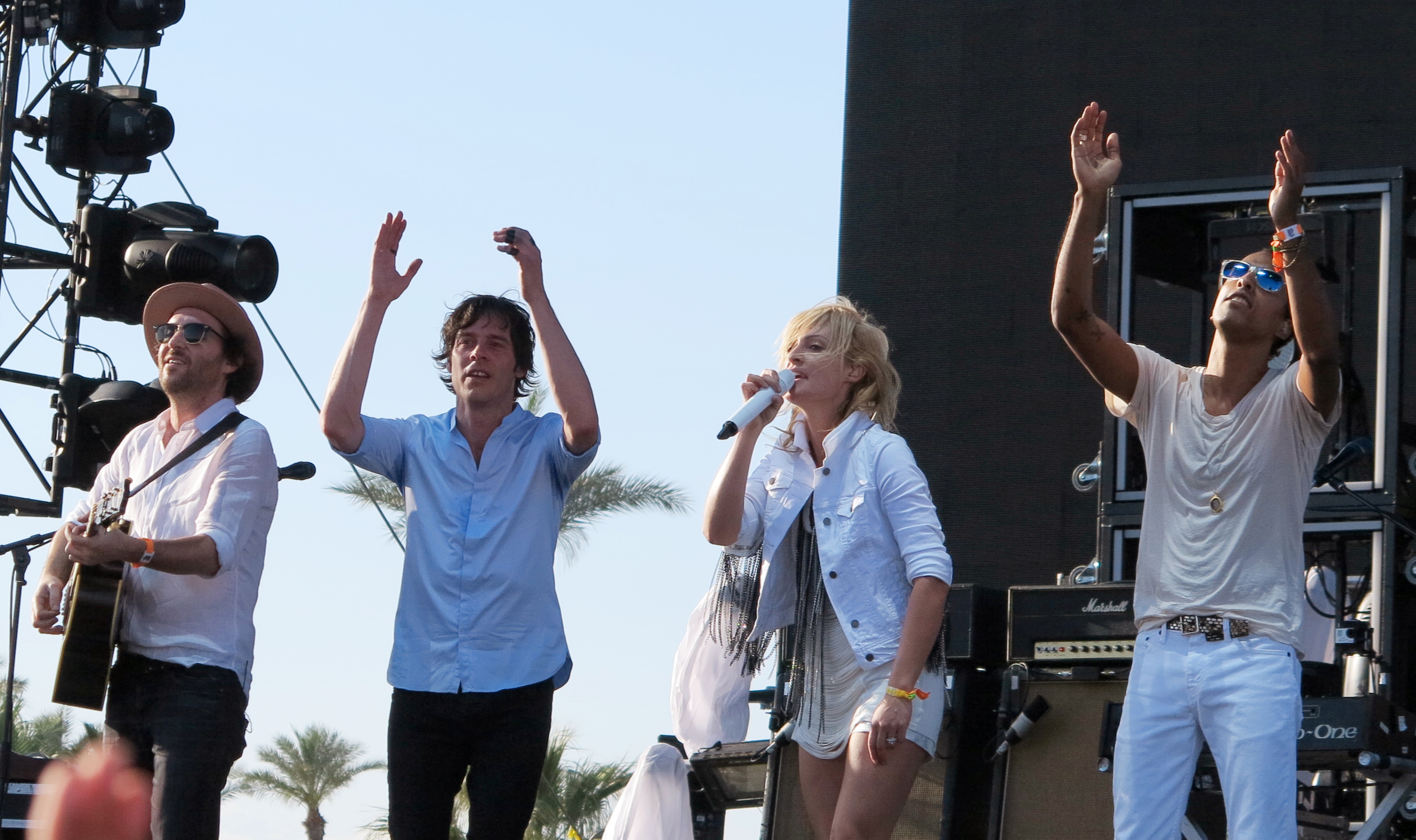 Metric plays out their last song, "Gimme Sympathy", at the Coachella Music Festival 2013